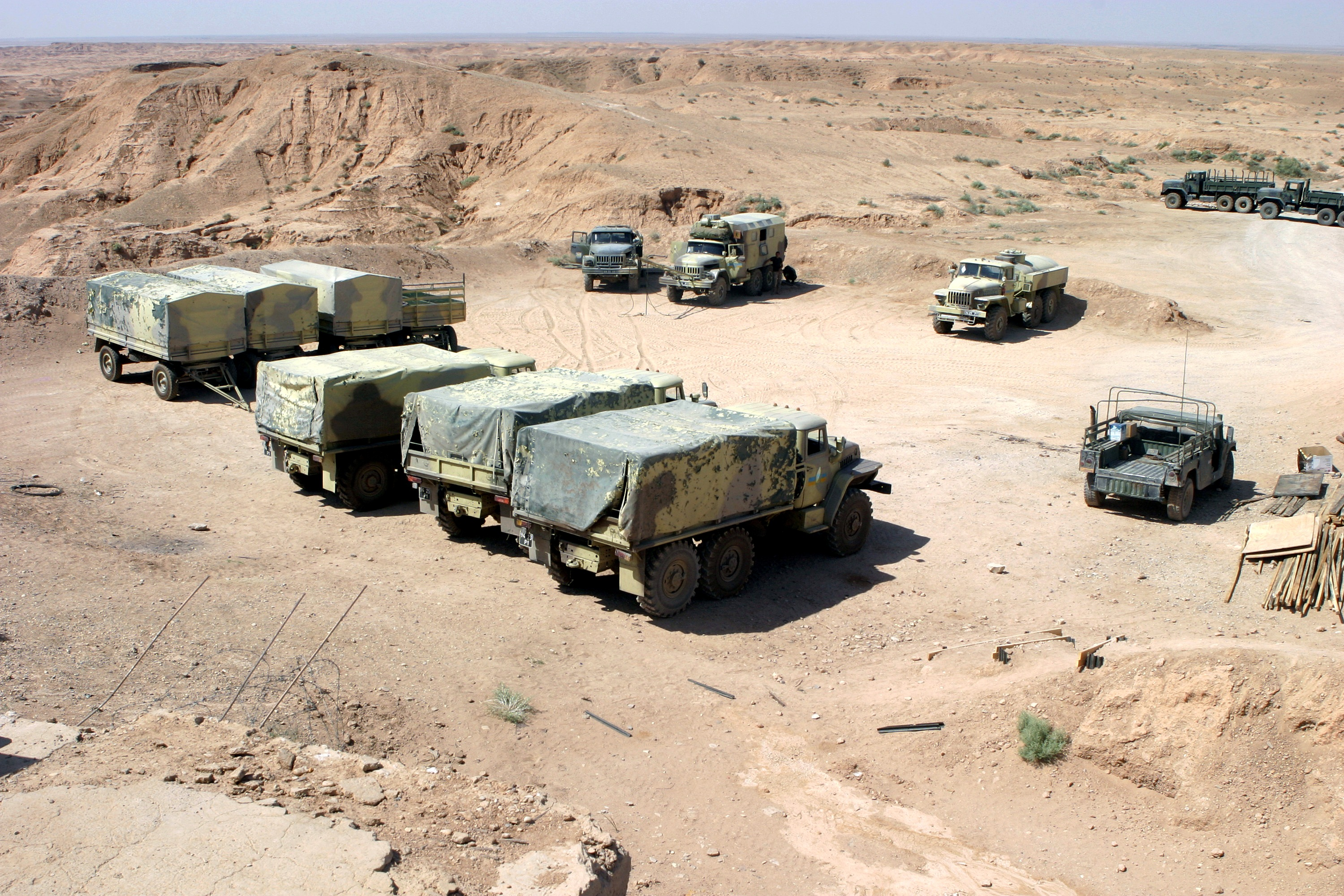 A US Marine Corps (USMC) Humvee (right), sits with several Ukraine Army Ural–4320-10 (6x6) 4,500kg trucks, and equipment trailers at a vehicle staging park located at Badrah, Iraq, during Operation IRAQI FREEDOM.